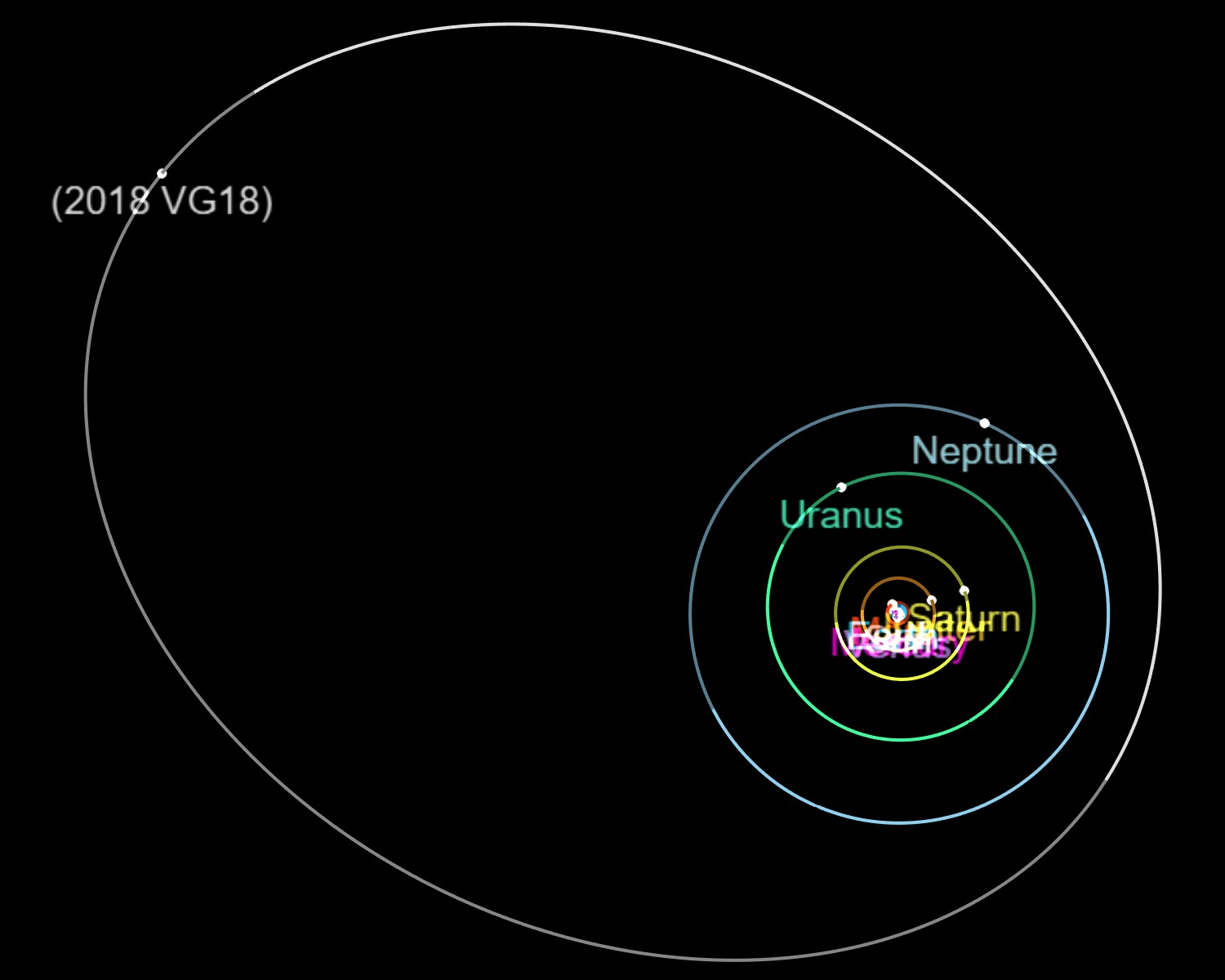 NASA - JPL Small-Body Database Browser (2018 VG18) Classification: TransNeptunian Object SPK-ID: 3836918